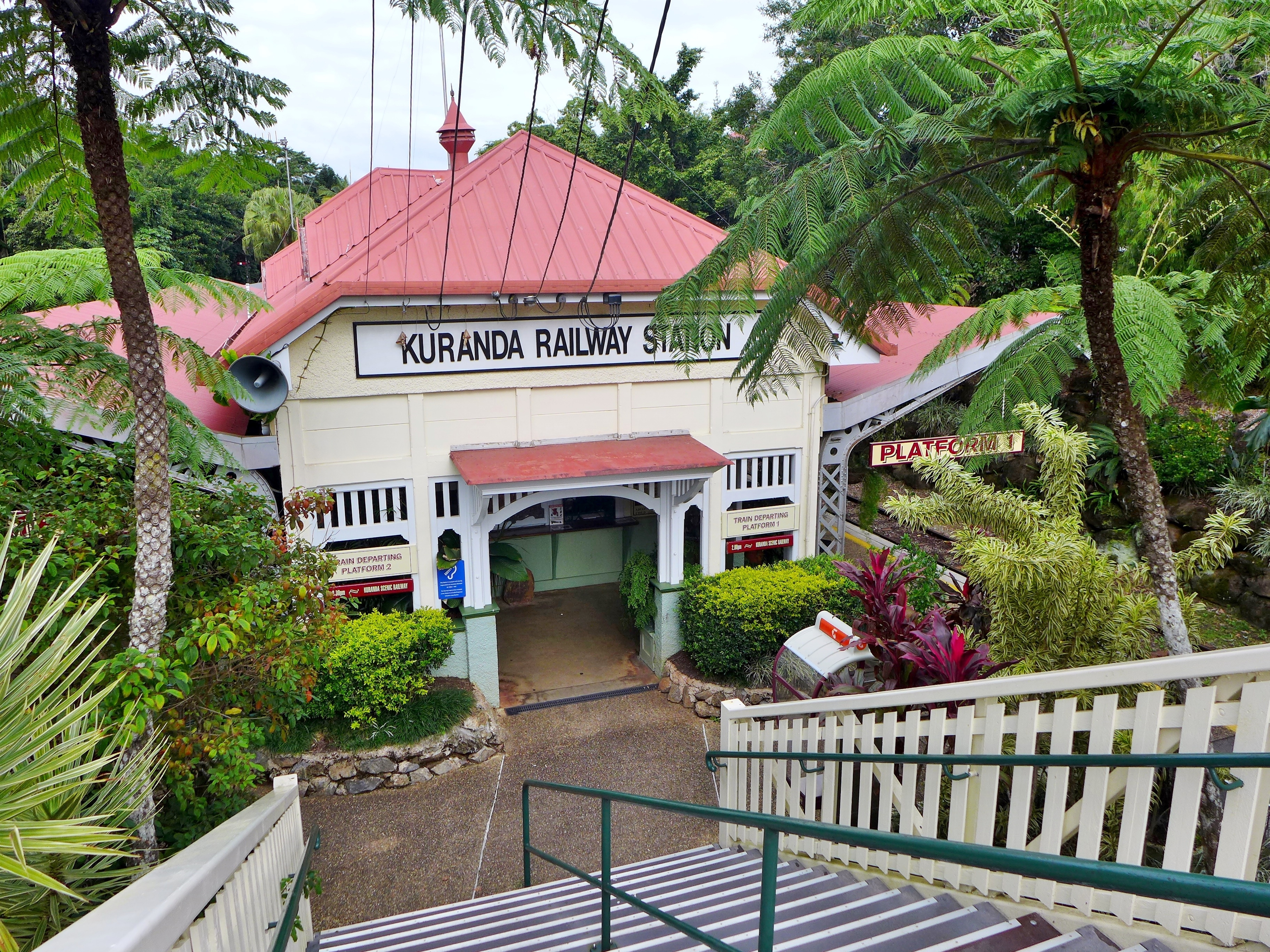 View of the Kuranda Scenic Railway station at Kuranda, Far North Queensland, Australia.